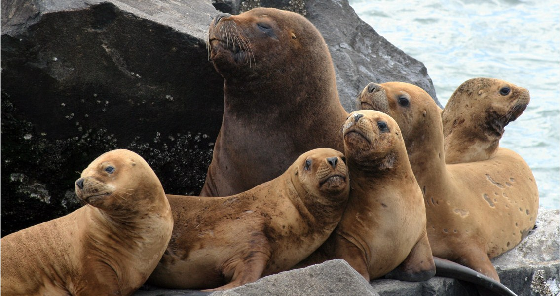 South American sea lions, Chubut, Argentina